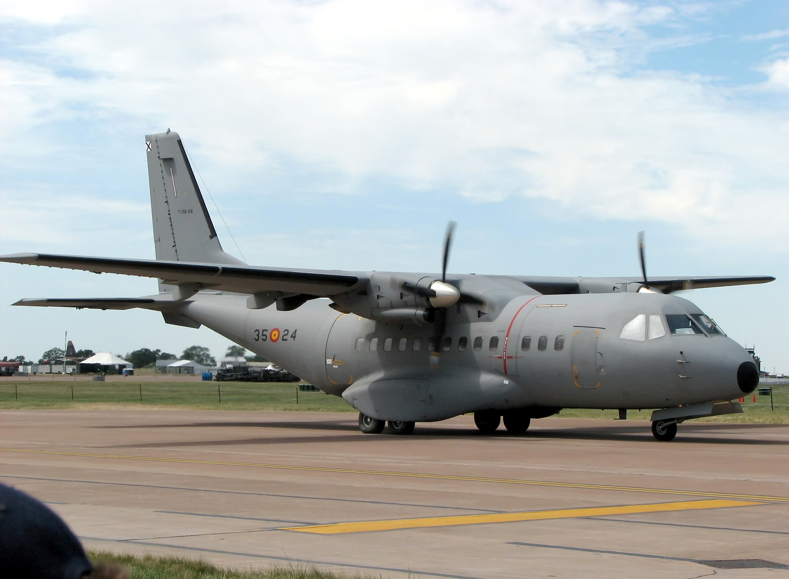 Casa CN-235M-100 of the Spanish Air Force (identifier T-19B-06 and 35-24) taxis for takeoff at the Royal International Air Tattoo, Fairford, Gloucestershire, England. Photographed by Adrian Pingstone on July 17th 2006 and released to the public domain.